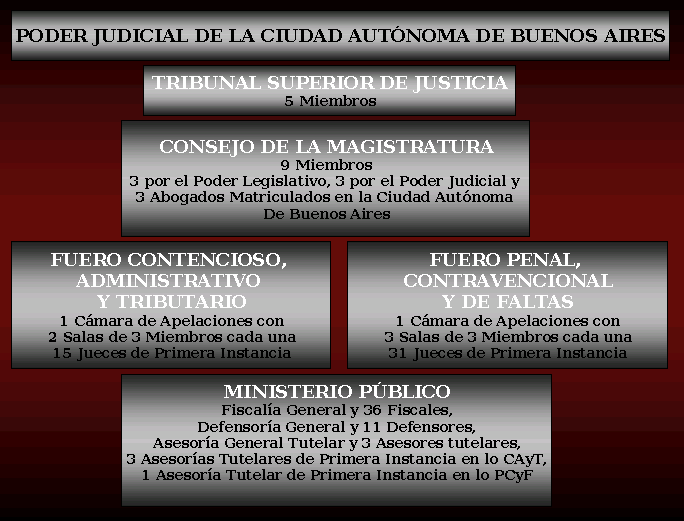 Organigrama